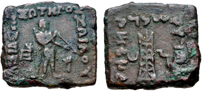 Zoilos II Indian standard with boxy mintmark